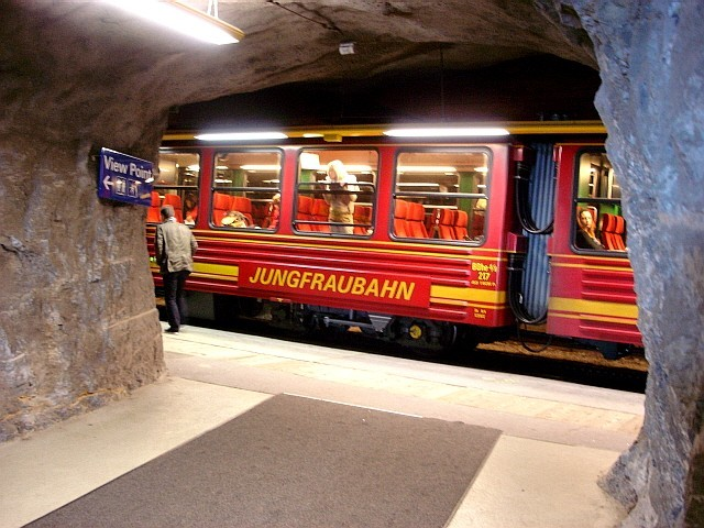 Jungfraubahnen